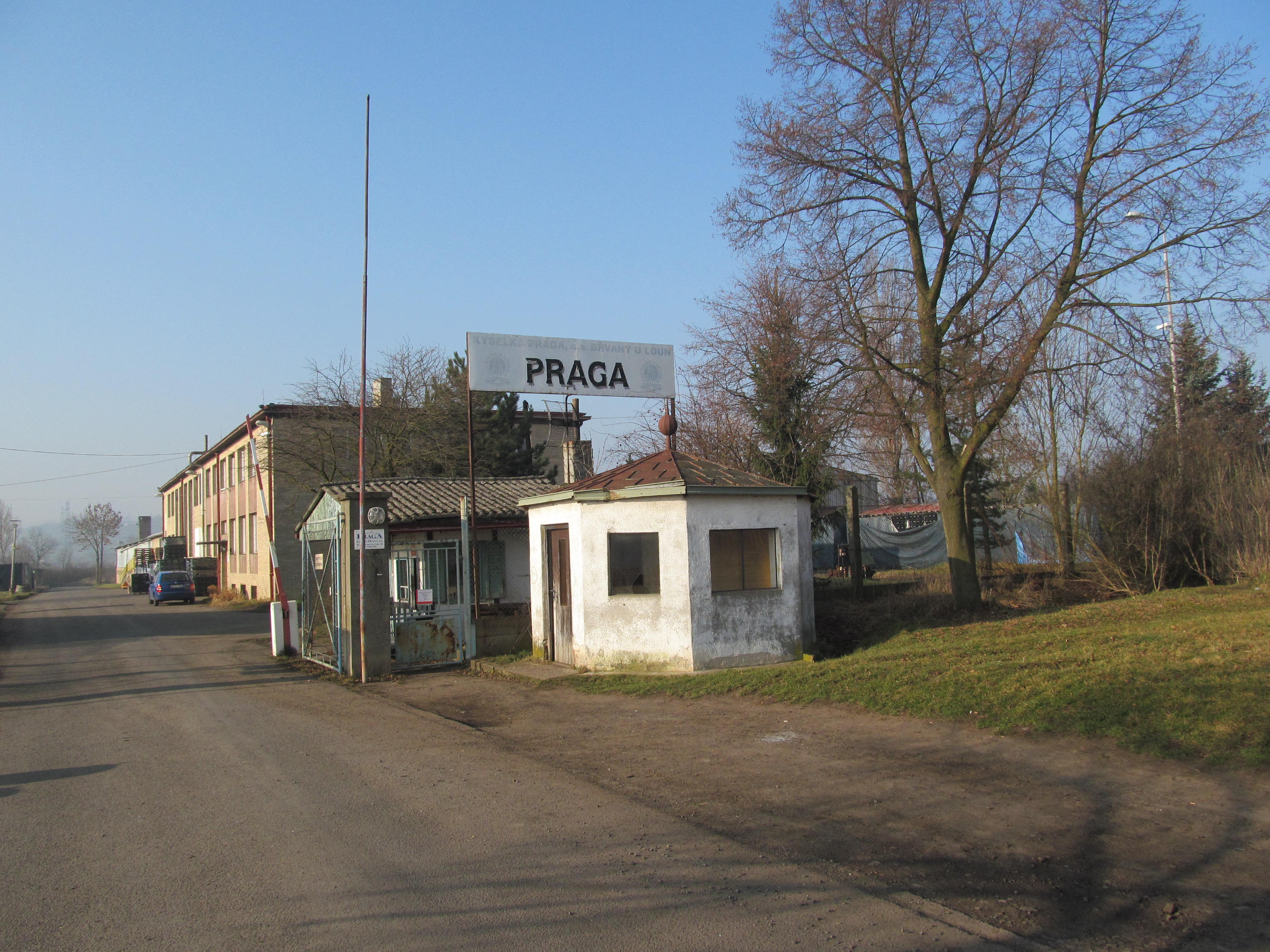 Bottler of mineral water Praga in Břvany